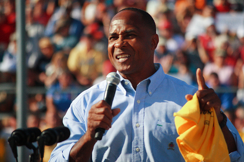 Lynn Swann at a McCain/Palin rally in Washington, Pennsylvania on August 30, 2008